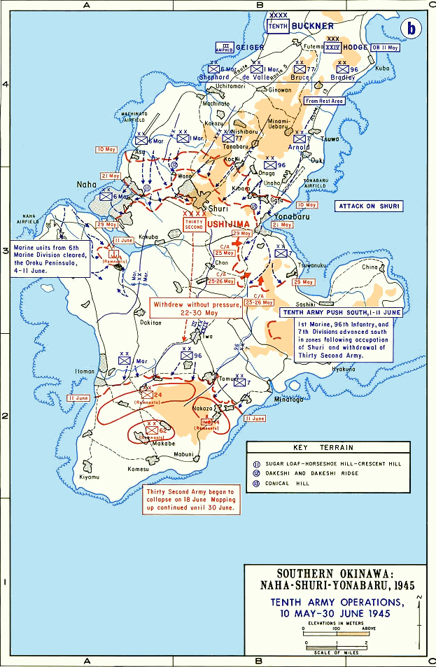 Battle of Okinawa, April-June 1945. Fig. 49b